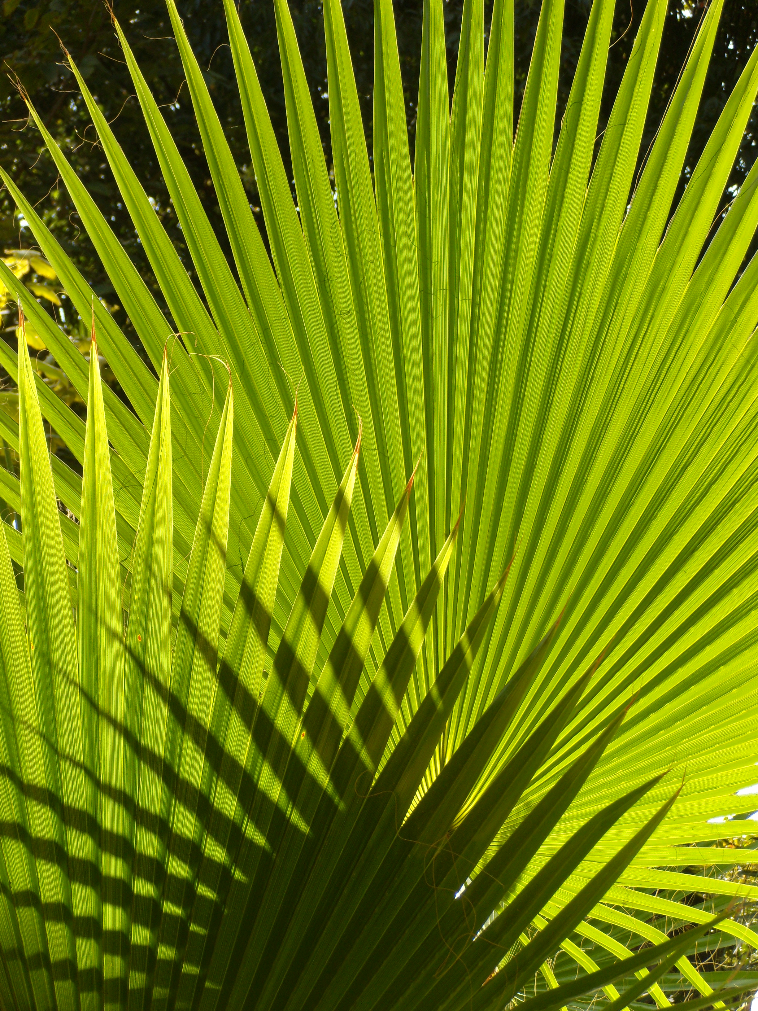 Light and shadow in the leafs of a Washingtonia filifera